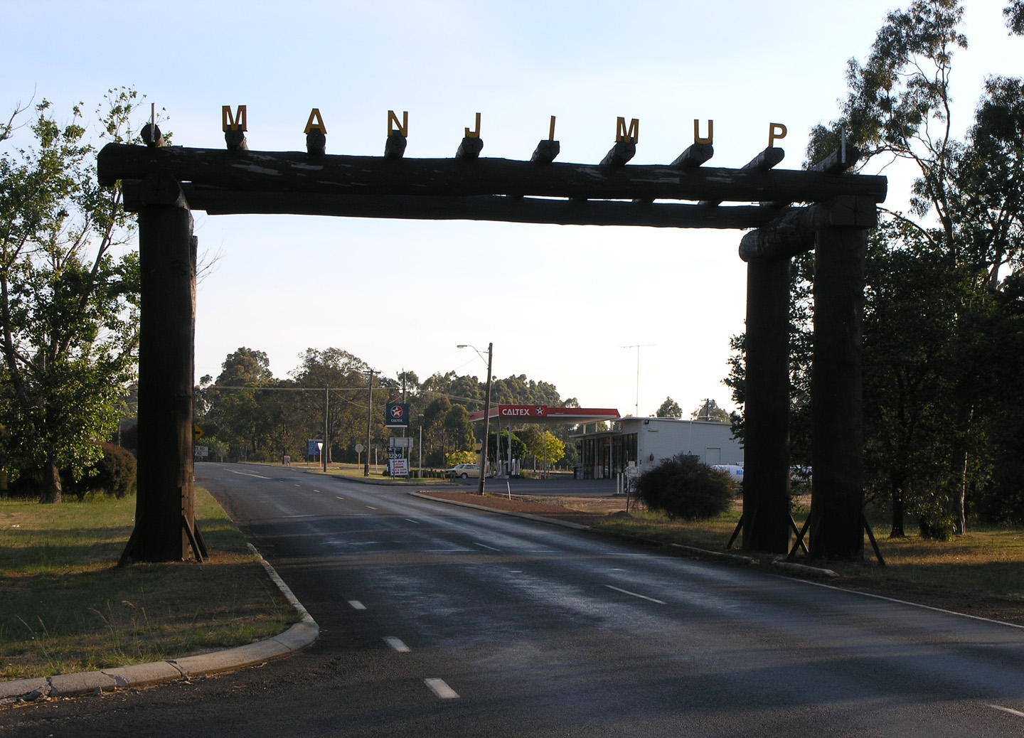 Manjimup sign, outskirts of the town, taken by myself.